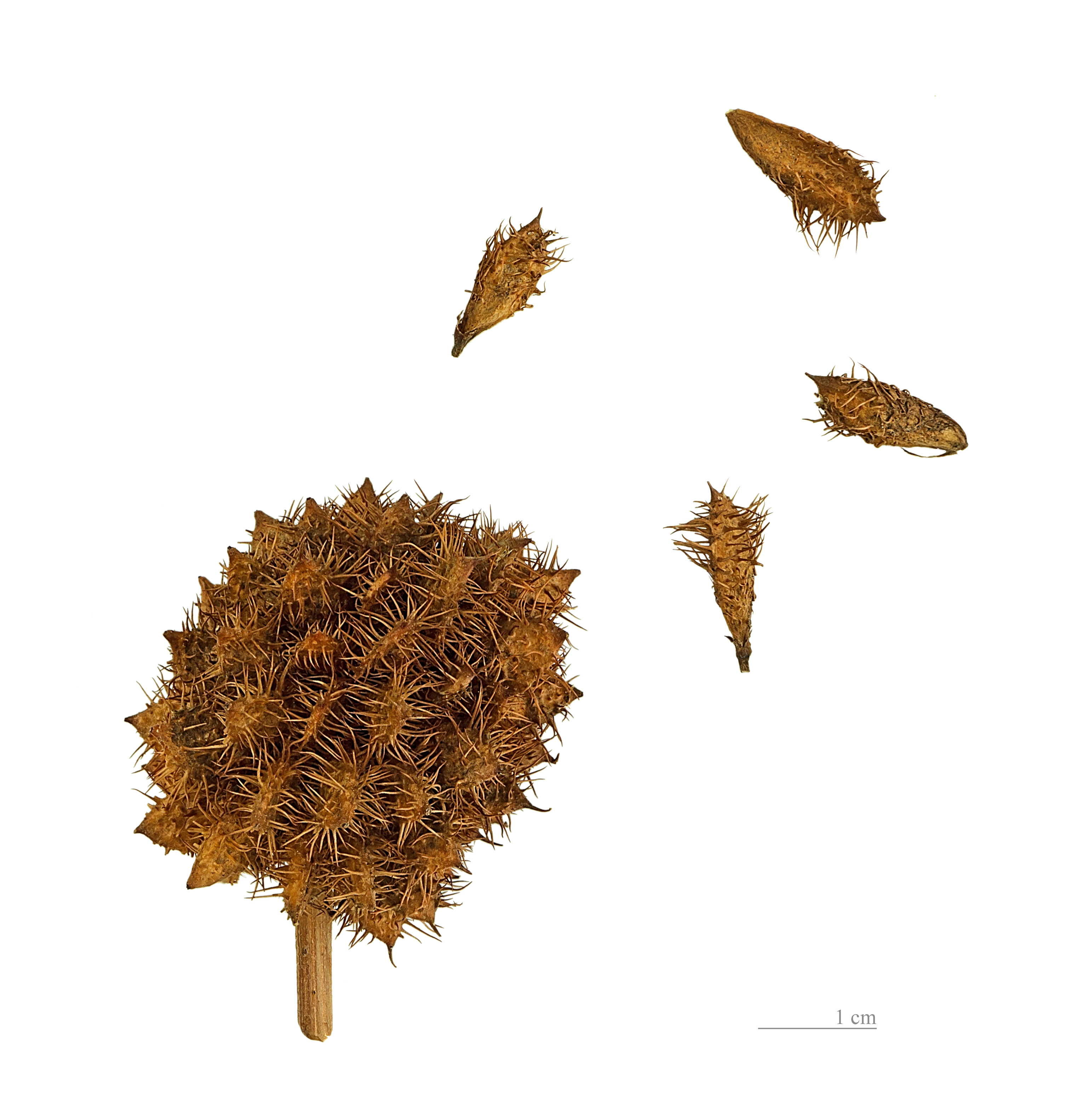 Ledgehog liquorice, fruits and seeds. Provenance : Botanic school of Jardin des Plantes Paris,France